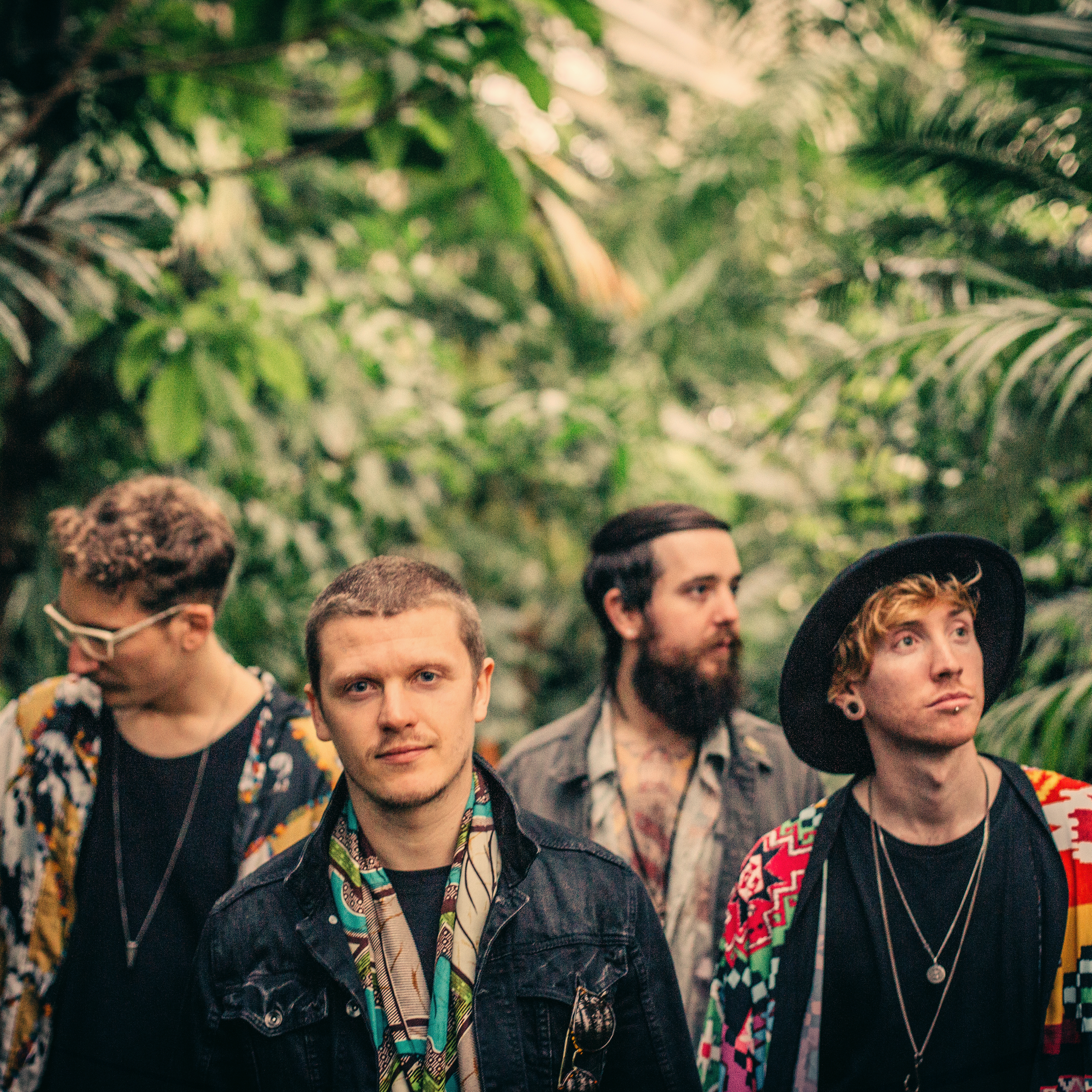 Official Natives Promo Photo, Feb '16